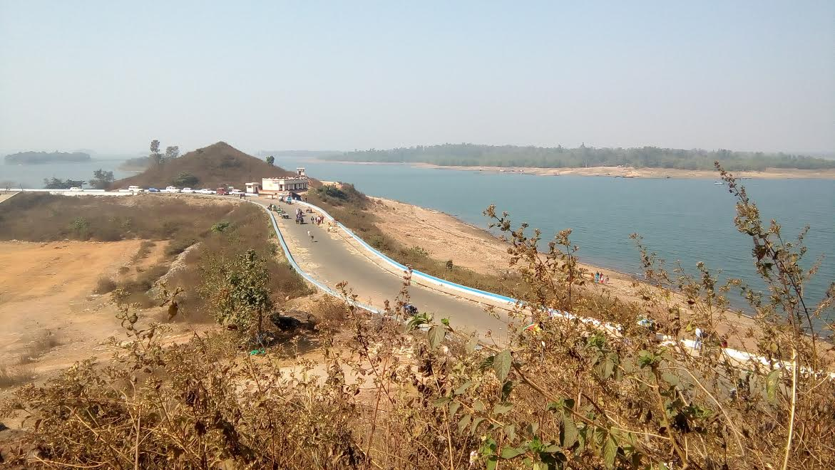 বেড়ানোর সময় তোলা ছবি।